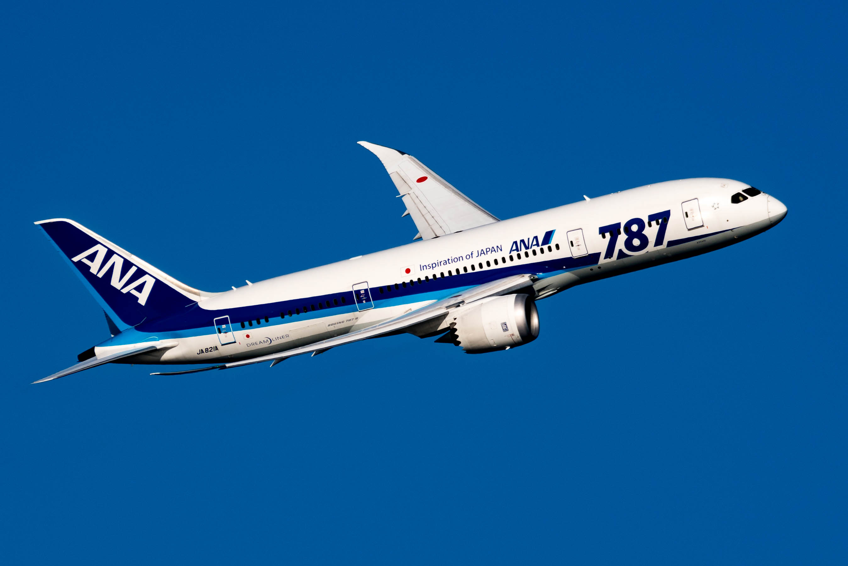 All Nippon Airways Boeing 787 at Tokyo Haneda Airport